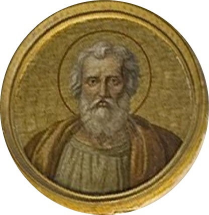 Antipope Felix II